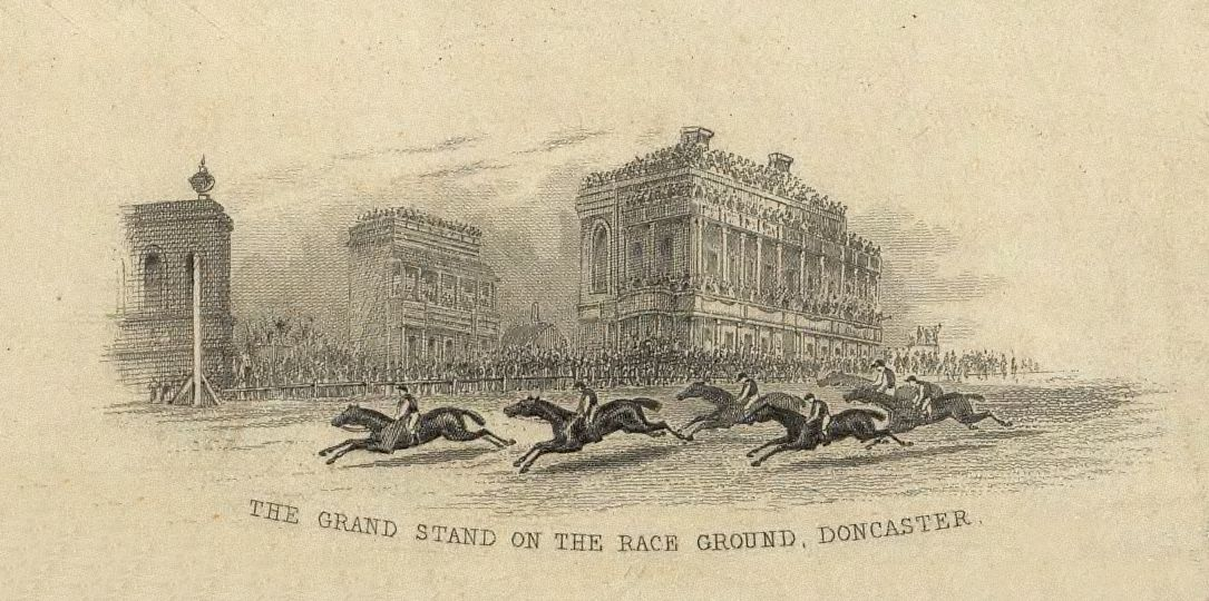 Doncaster Racecourse, vignette from map of England and Wales, Nathaniel Whittock, John Rogers 1851